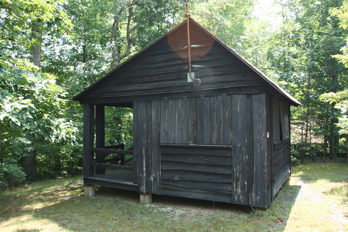 Leader's cabin, Chopawamsic RDA Camp #2, Mawavi Historic District in Prince William Forest Park, Prince William County, Virginia, USA